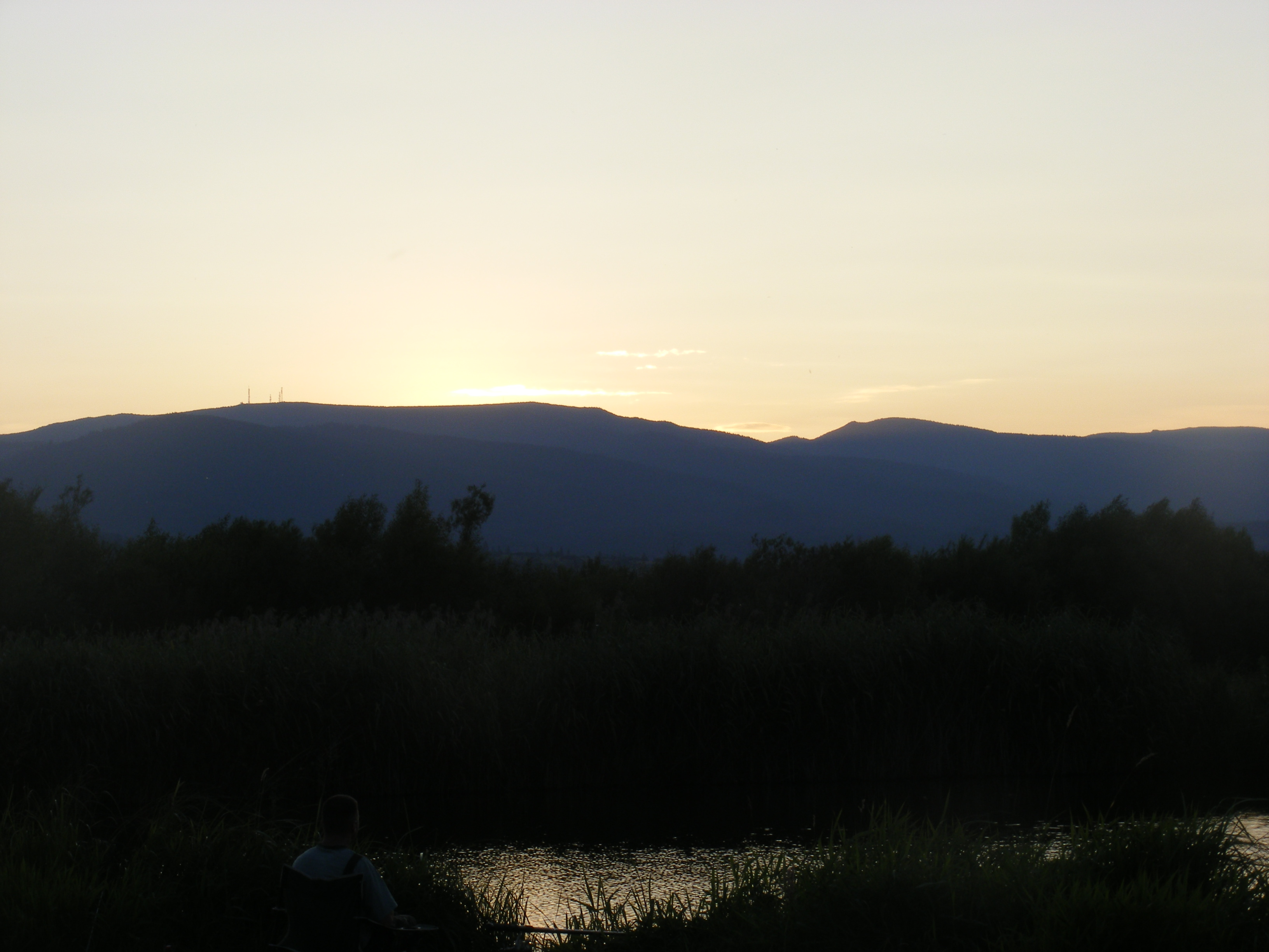 The Olt river and the Harghita mountains after sunset